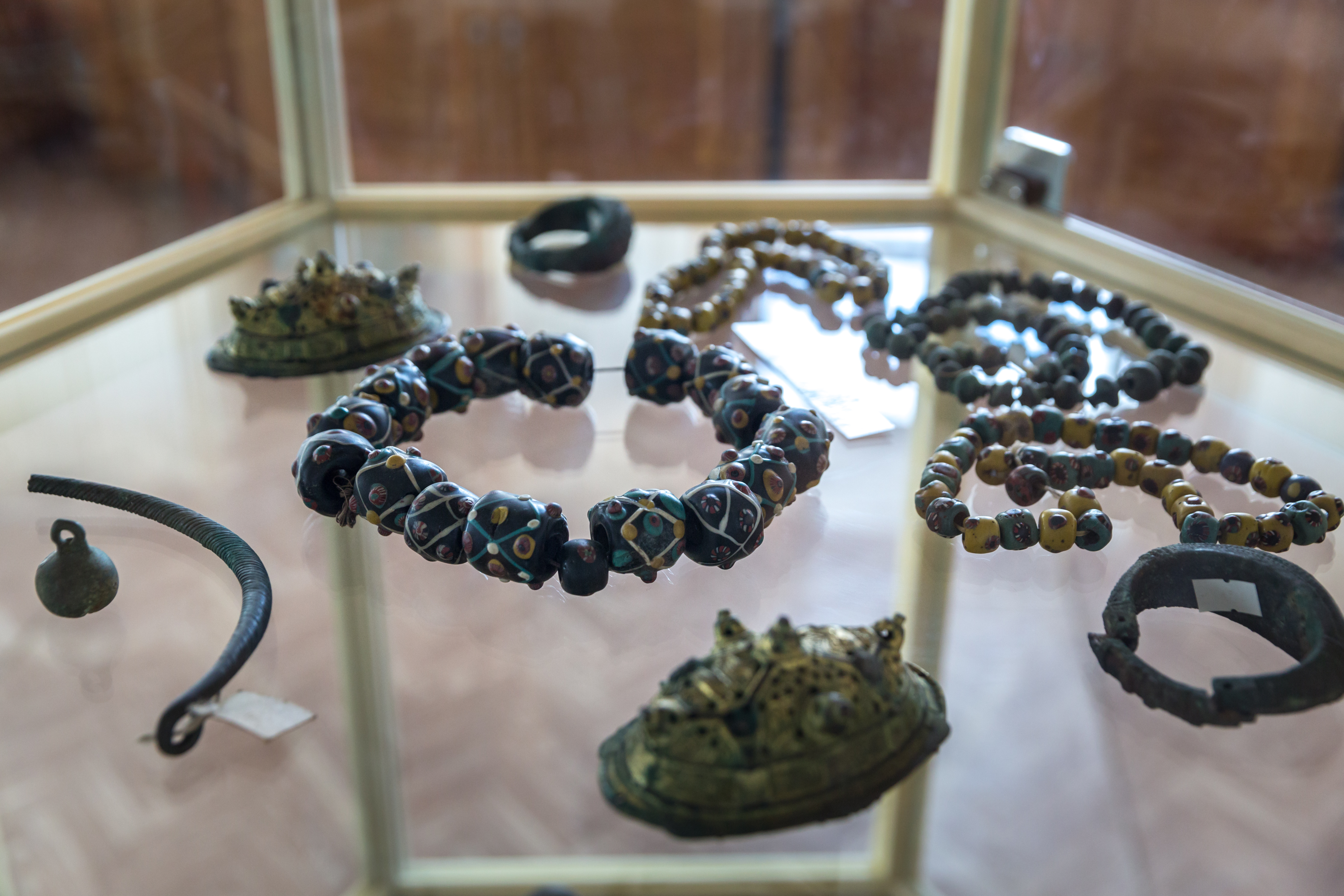 Archaeological finds from the mounds of the Oyat River. KarRC RAS. 2015.